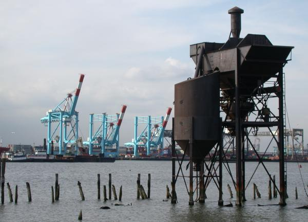 Container port facilities in Newark Bay, seen from Bayonne © 2004 Matthew Trump